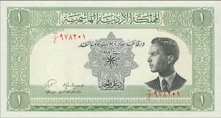 ONE JD 1952-obverse